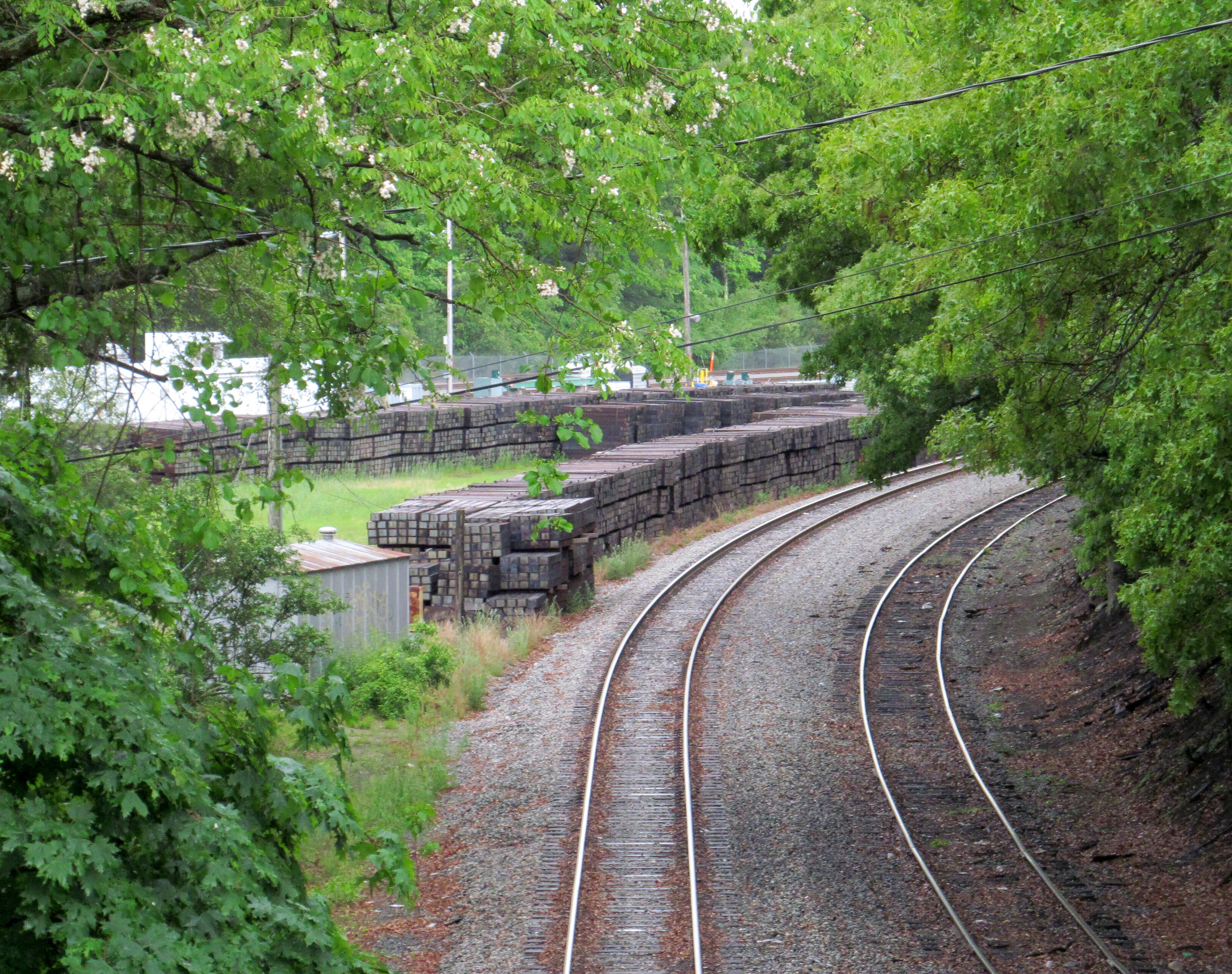 The planned site of Middleborough station in June 2017